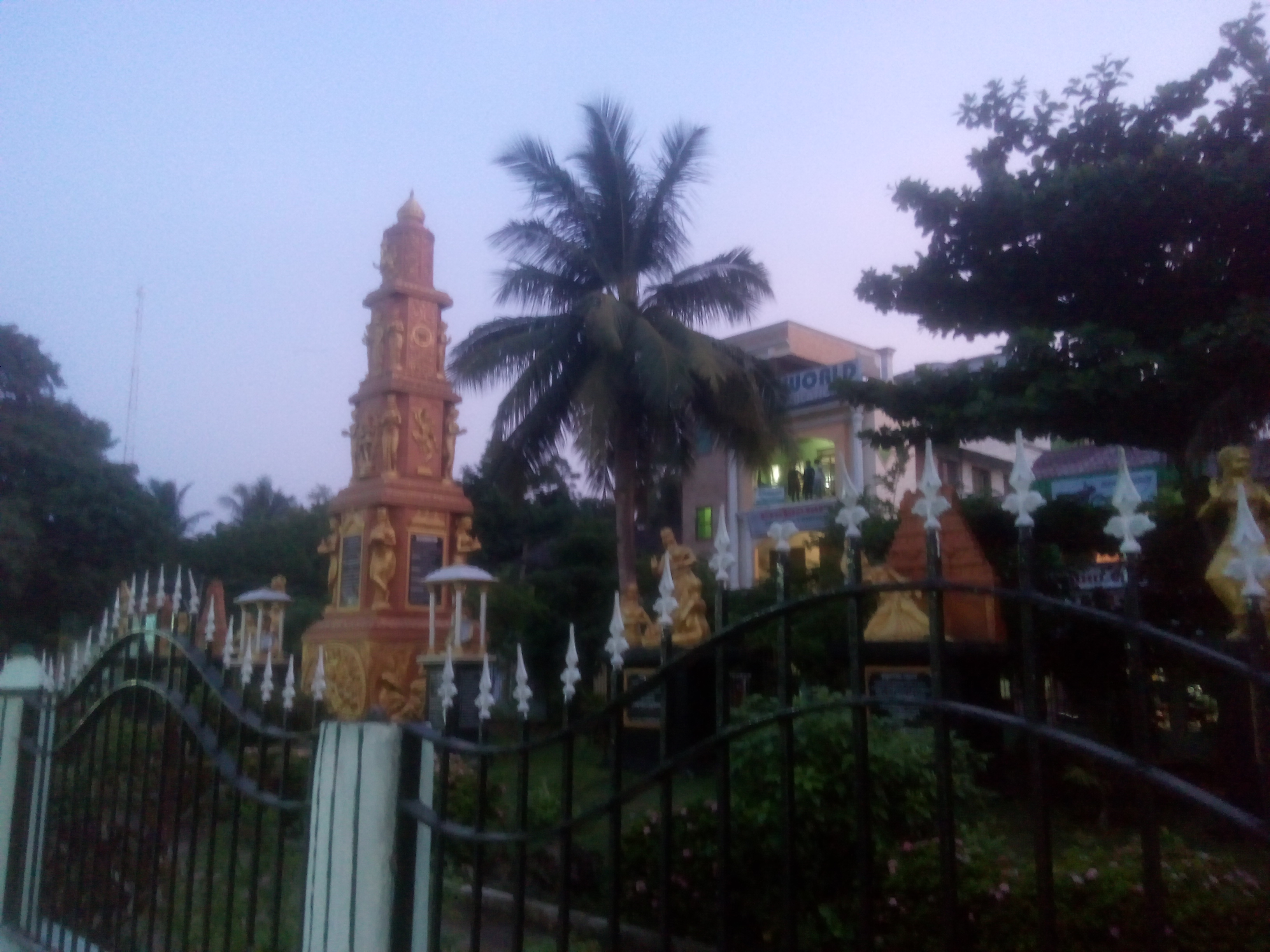 Nrutya vanam Rajamandry